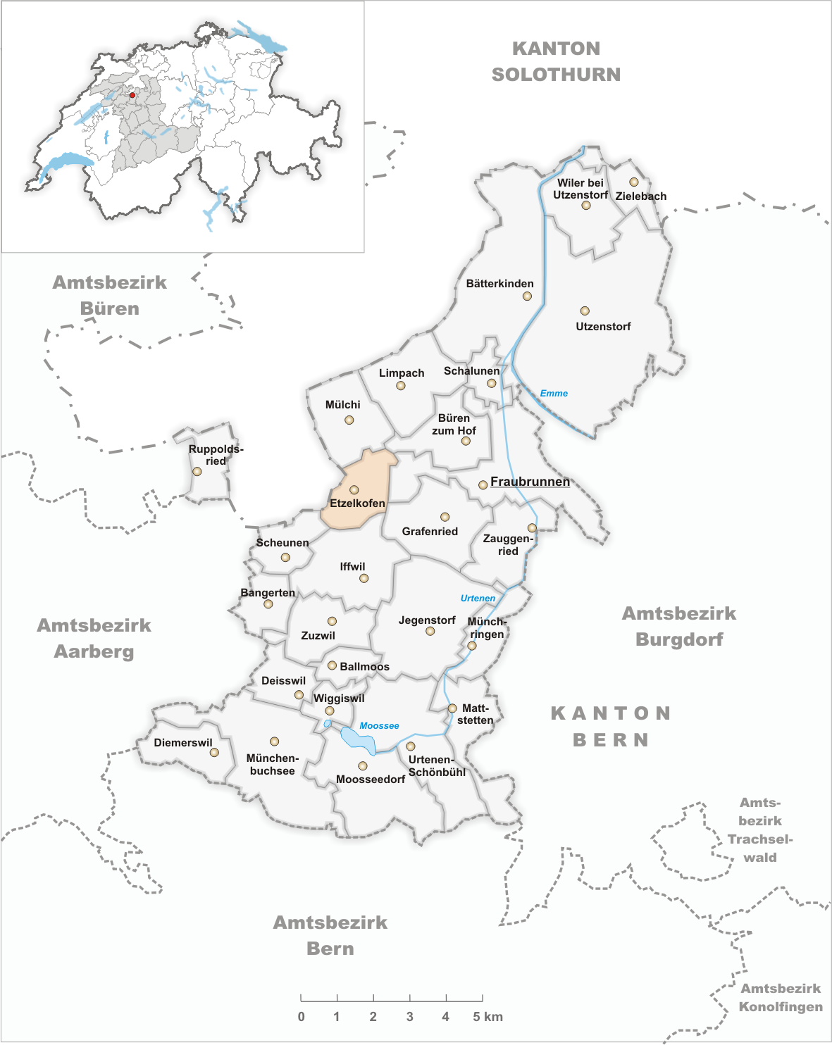 Municipality Etzelkofen